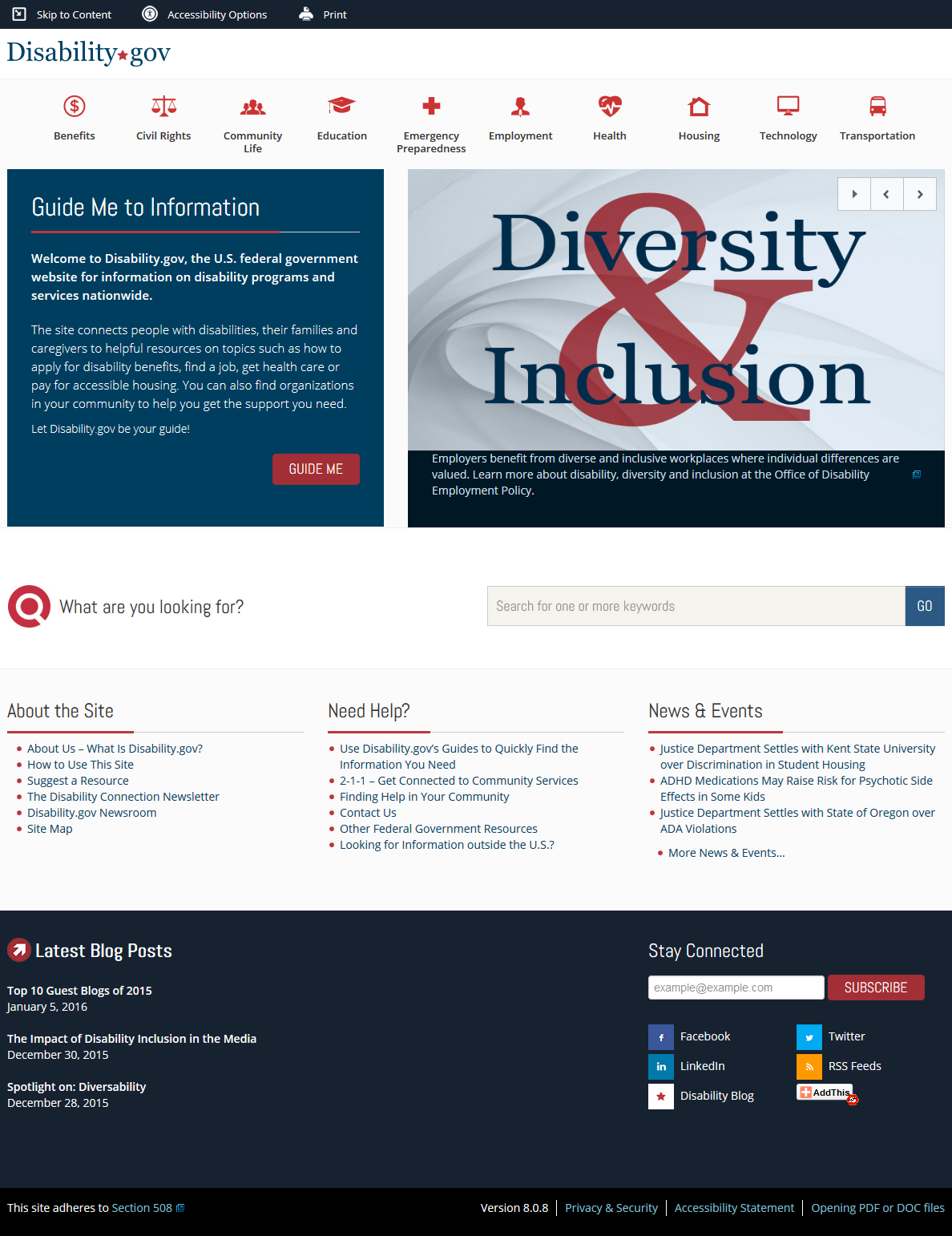 screenshot 2016-01-05